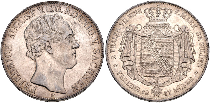 GERMANY, Sachsen (Königreich). Friedrich August II. 1836-1854. AR Vereinsdoppeltaler (41mm, 37.06 g, 12h). Dresden mint. Dated 1847. Bare head right / Crowned and mantled coat-of-arms. Davenport 874. Good VF, bag marks.